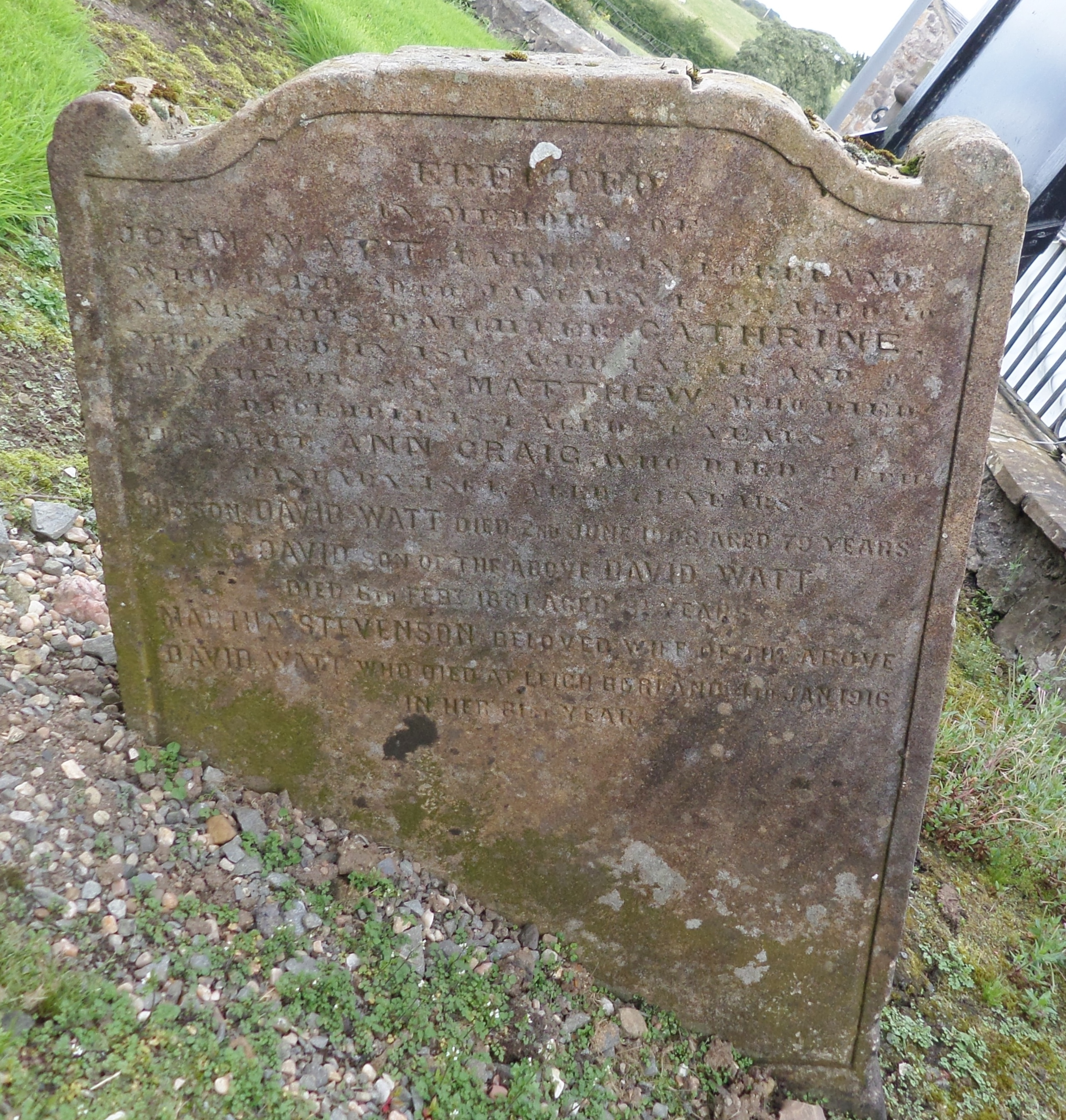 Gravestone of Watt family of Borland and Laigh Borland at Dunlop parish church, East Ayrshire, Scotland.